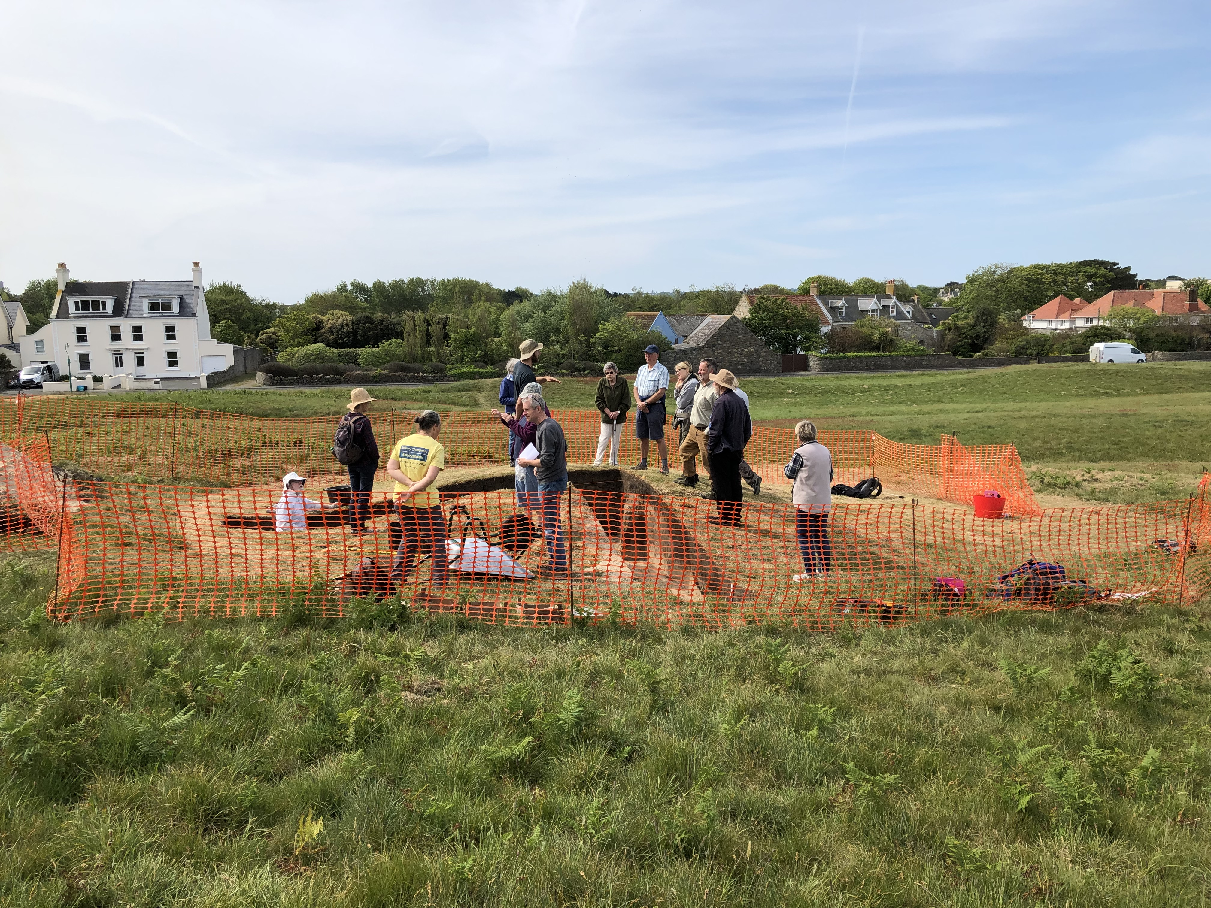 Visitor group at the excavation